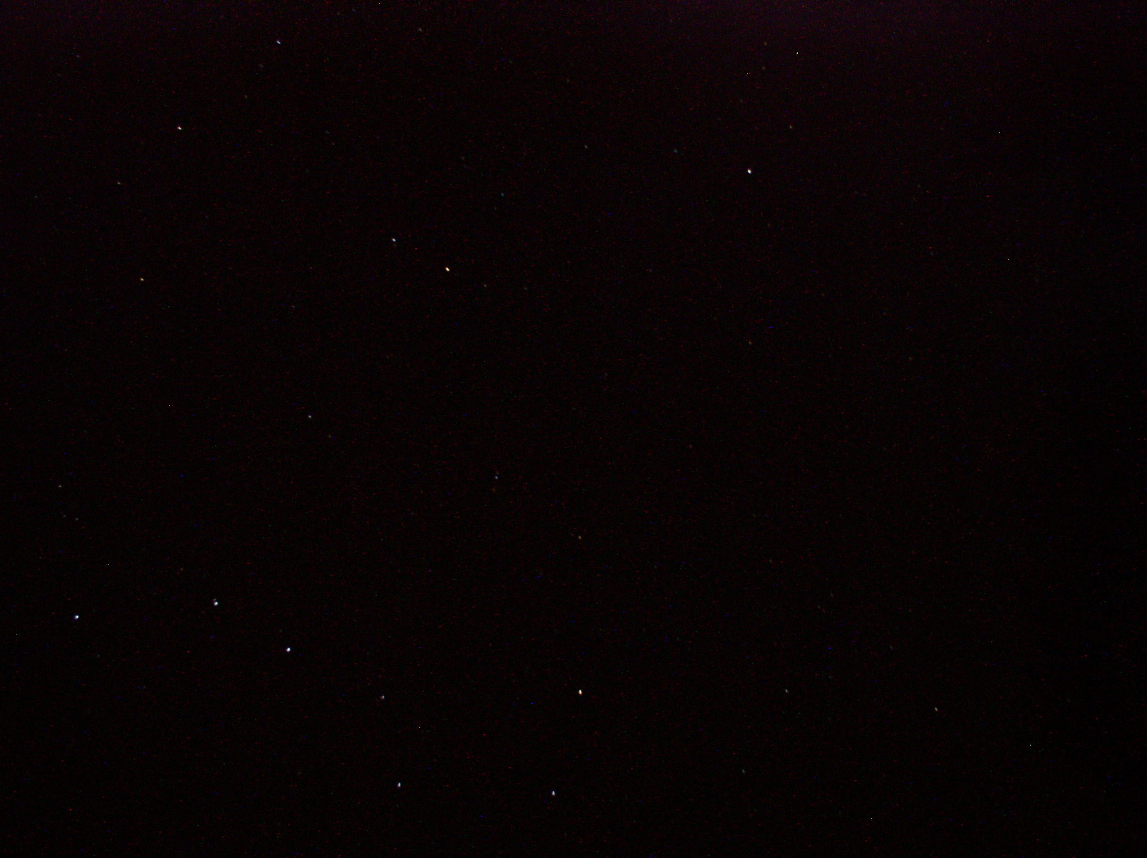 The Big Dipper and the Little Dipper constellations